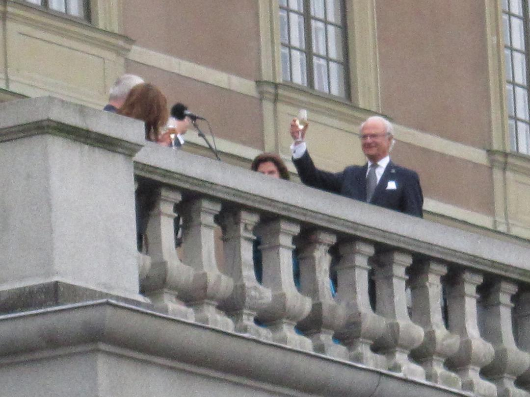 King of Sweden toasts and thanks Stockholm's mayor for helping him celebrate 40 years on the thronePlace: Stockholm Palace, Sweden